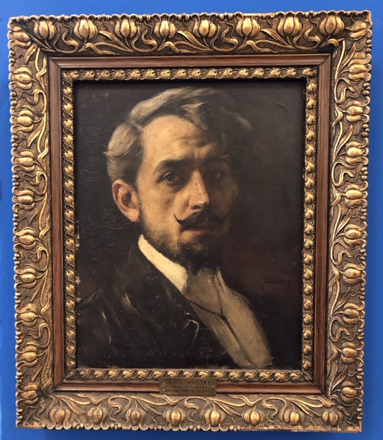 Oil on canvas